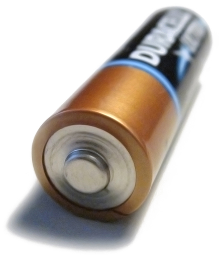 A Duracell-brand AA battery